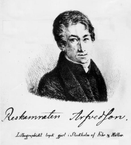 Lithograph of Johan August Arfwedson (1792 - 1841), the Swedish discoverer of the chemical element lithium. J. J. Berzelius, who died in 1848, annotated his own copy, so the lithograph was made before 1849.